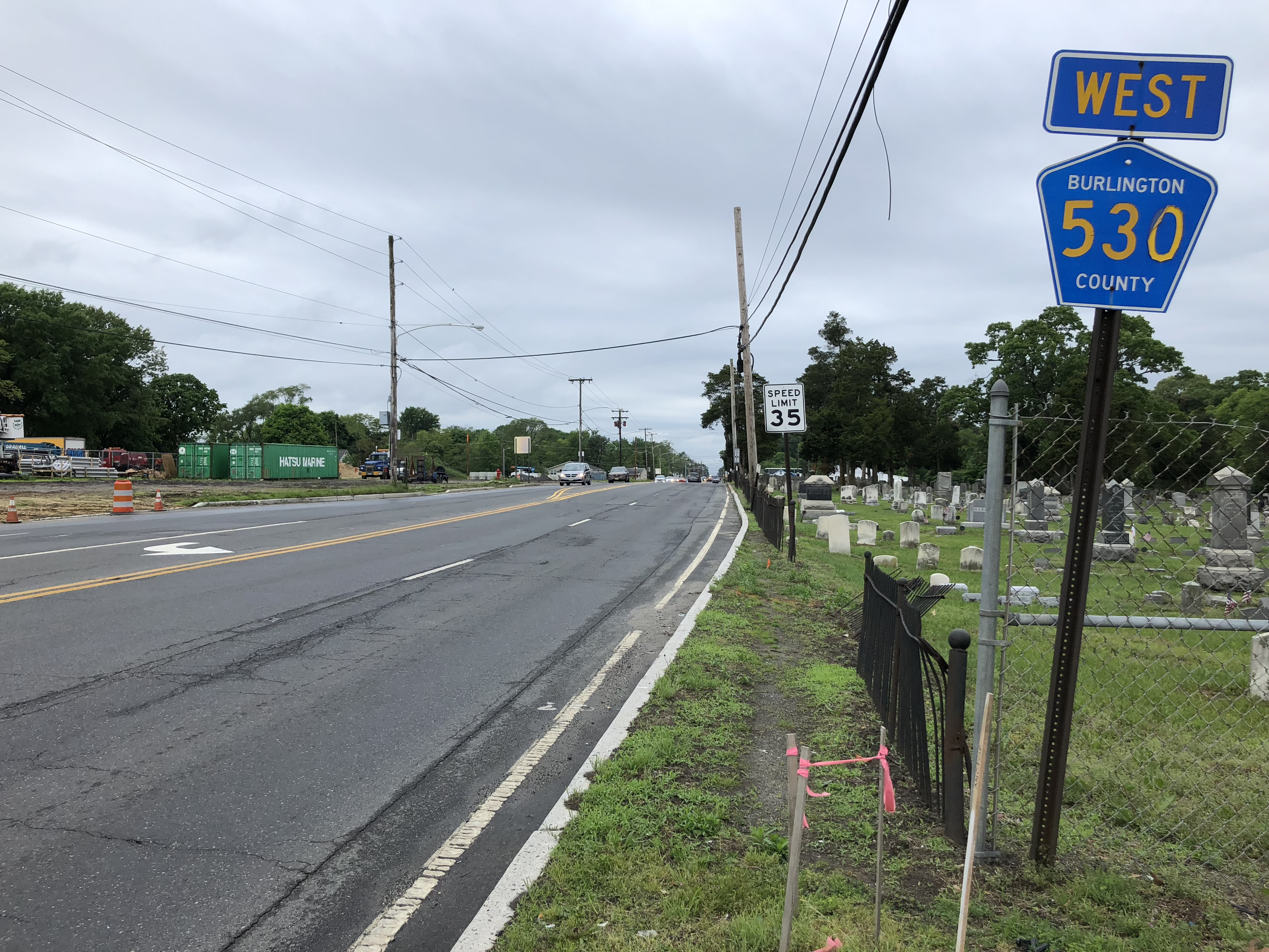 View west along Burlington County Route 530 (Hampton Street) at Burlington County Route 616 (Hanover Street) in Pemberton, Burlington County, New Jersey